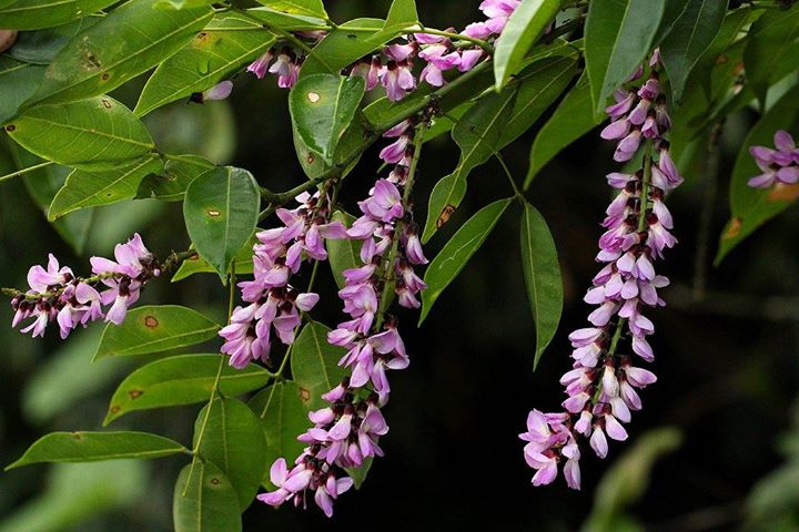 Millettia griffoniana Baill. - riverine climber on the Aruwimi River in Central DR Congo